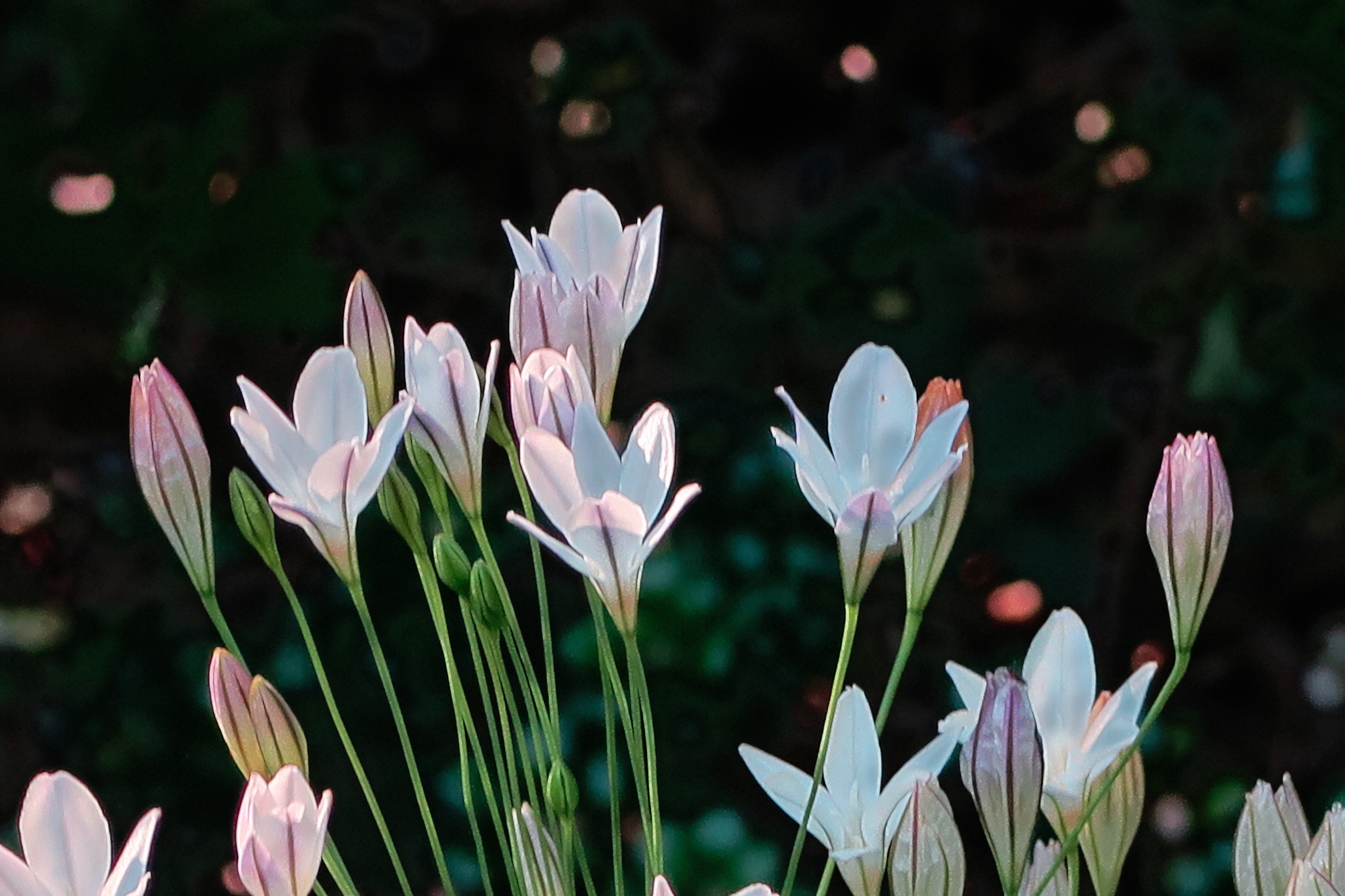 Triteleia peduncularis Files uploaded by PDTillman Photographs by John Rusk